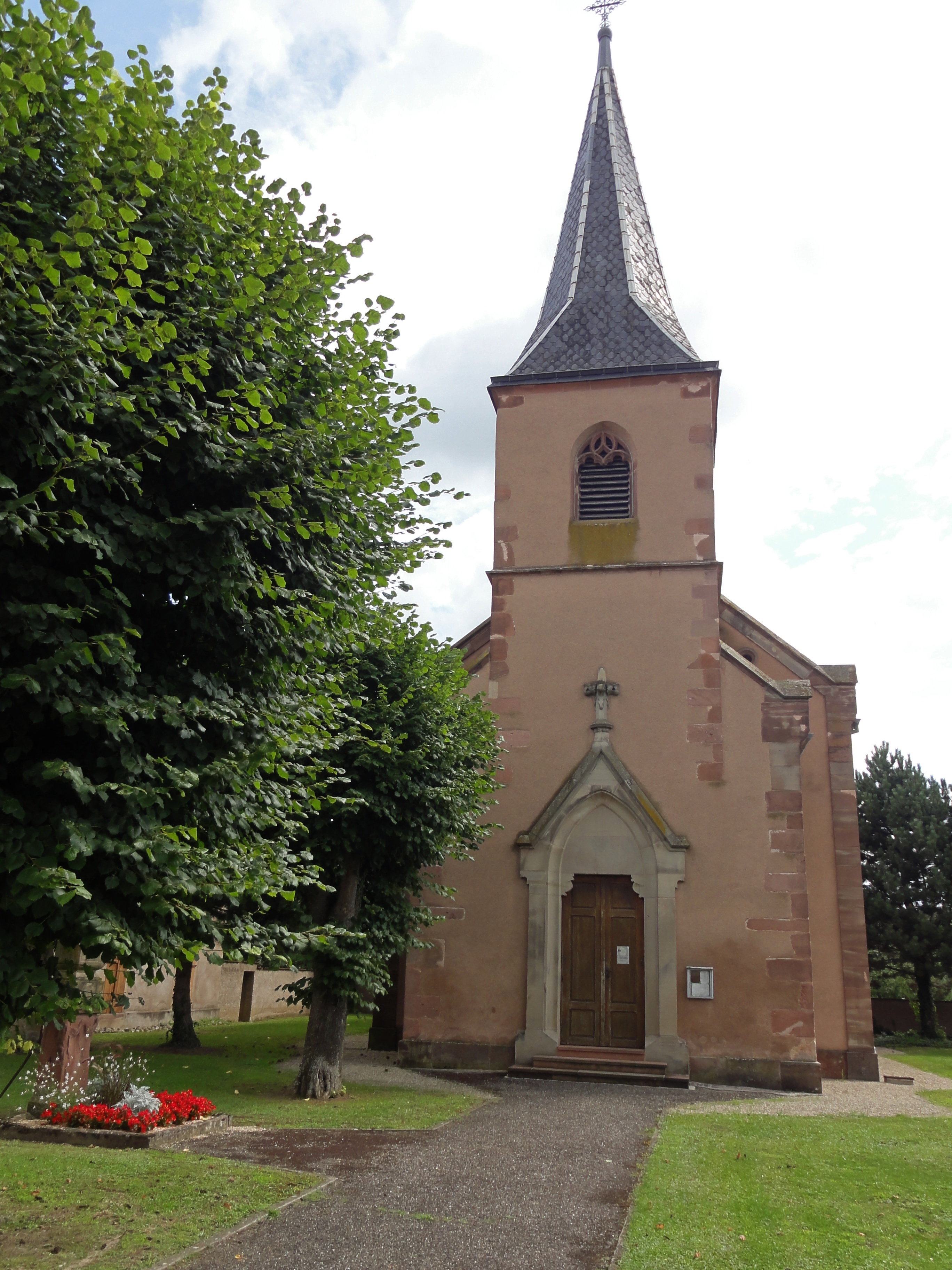 Alsace, Bas-Rhin, Boofzheim, Église Saint-Etienne (XVIe-XIXe): It is indexed in the Base Mérimée, a database of architectural heritage maintained by the French Ministry of Culture, under the references PA00084637 and IA00023547.